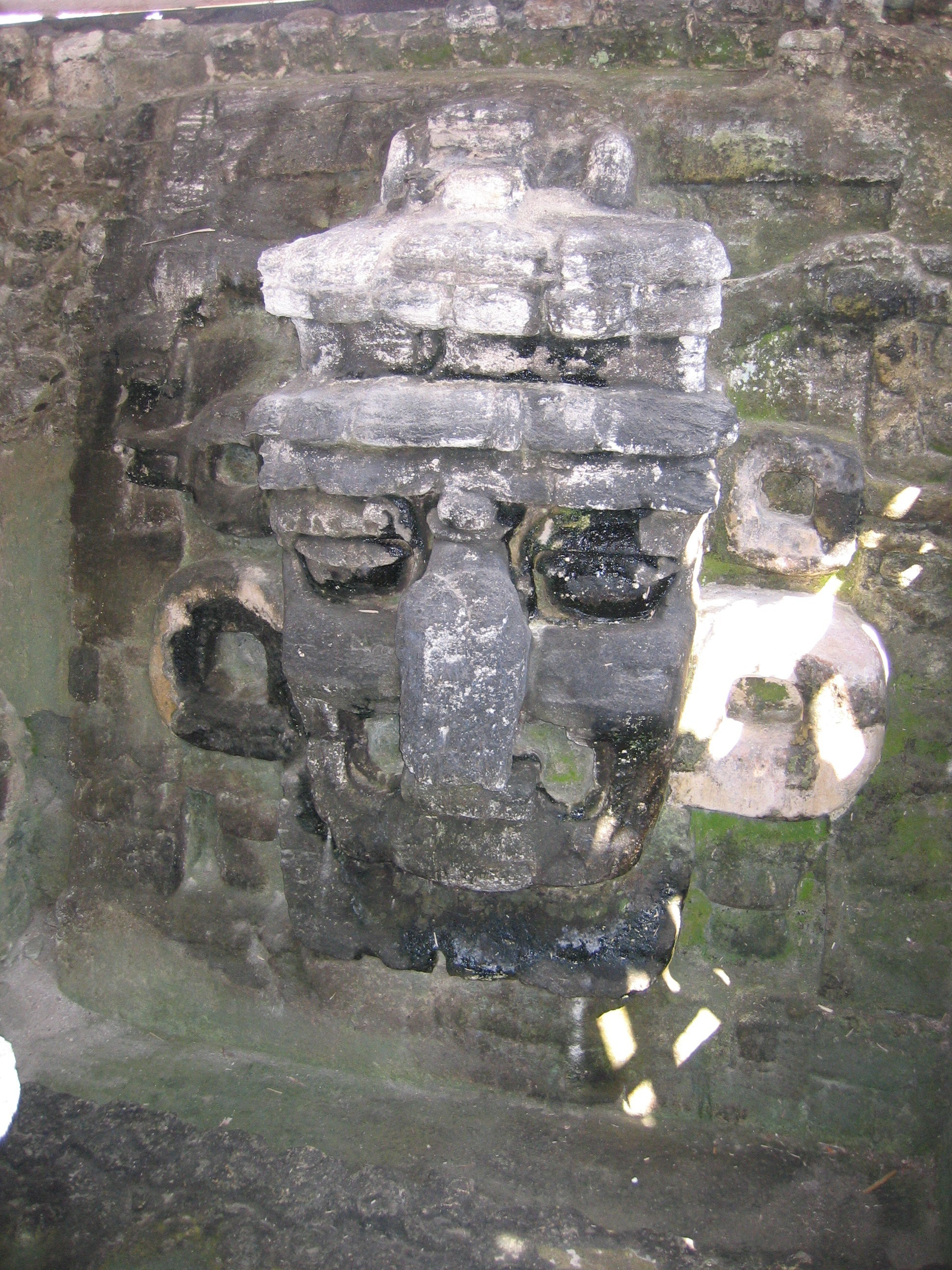 From the mayan site Tikal